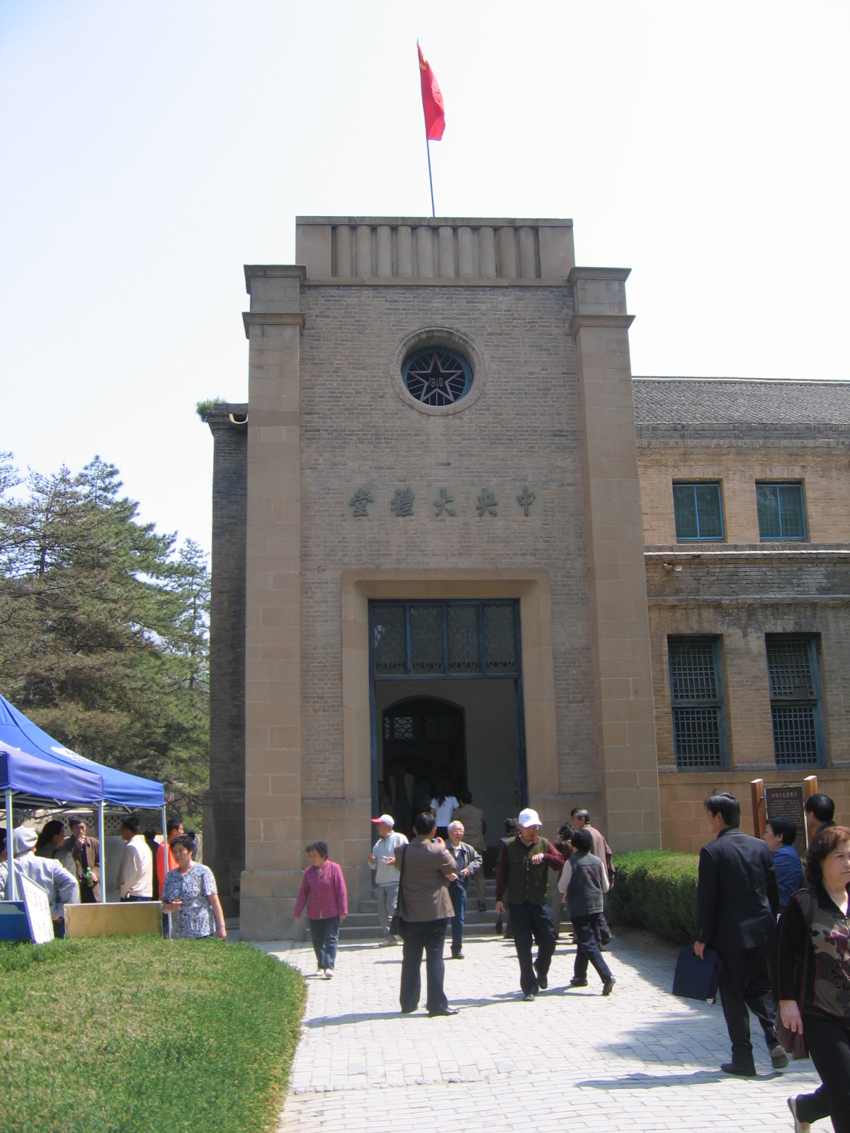 Yanan Shaanxi maoist city 陕西省延安市 Community building